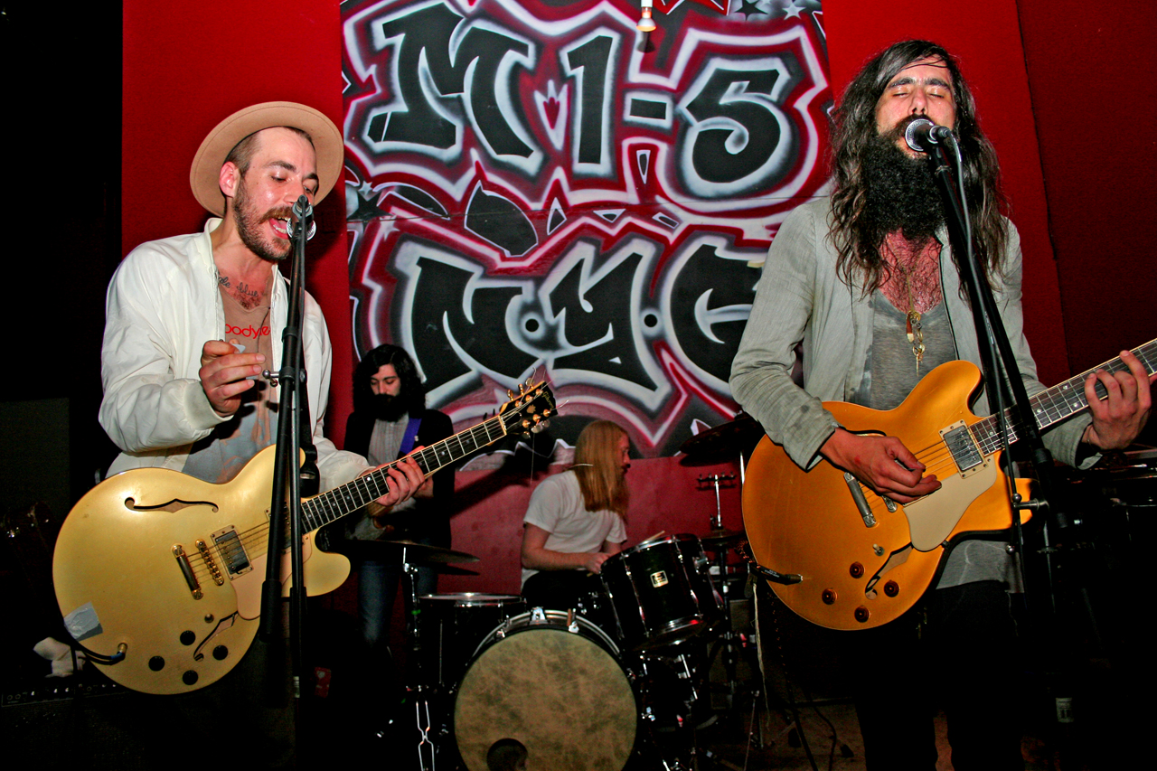 VietNam performing 52 walker street on March 2, 2007.